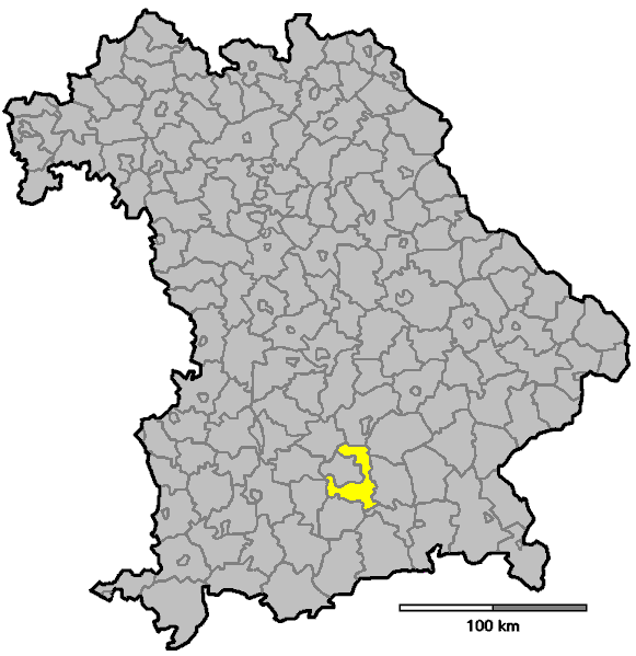 locator map of the former (1970) districts (Landkreise) in Bavaria, Germany